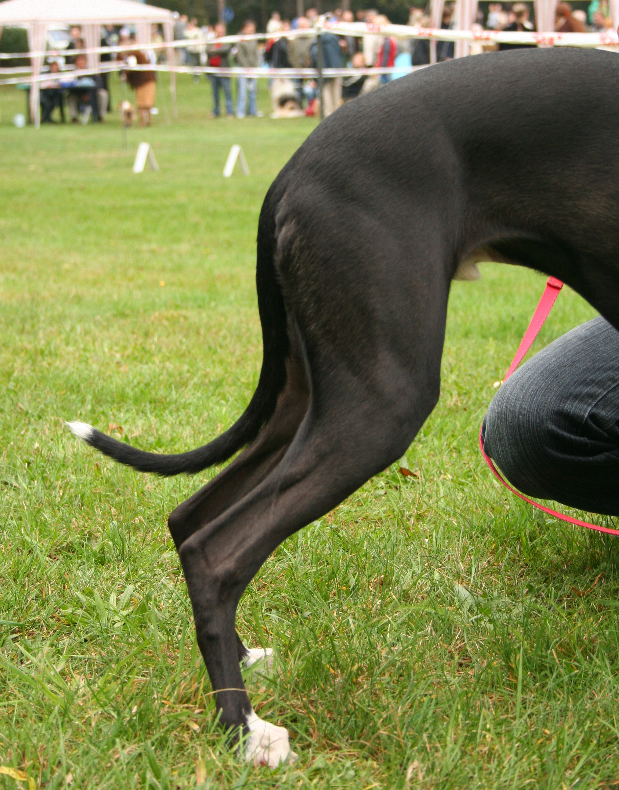 Whippet during show of dogs in Rybnik - Kamień, Poland